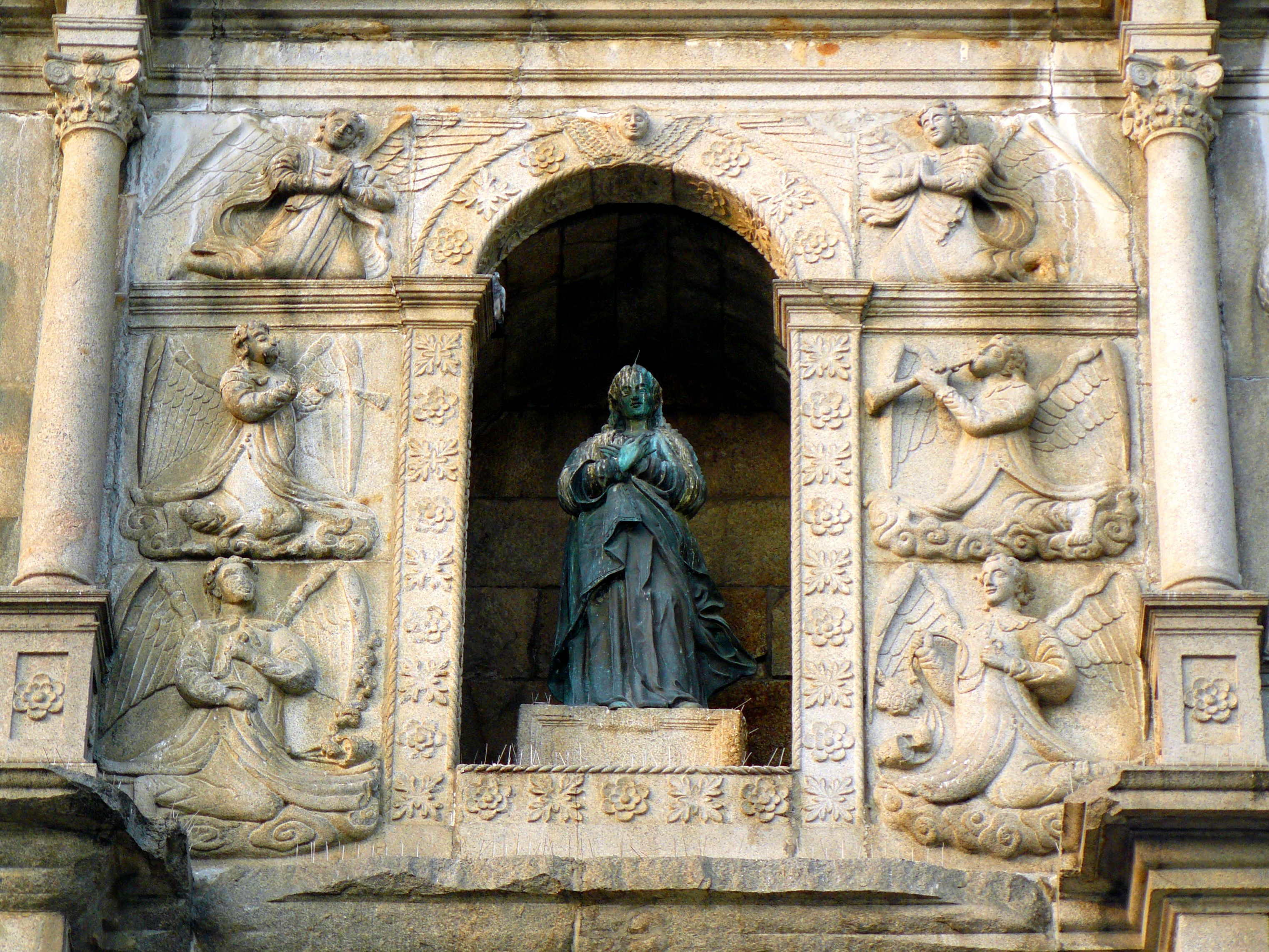 Ruins of St Paul's, Macau